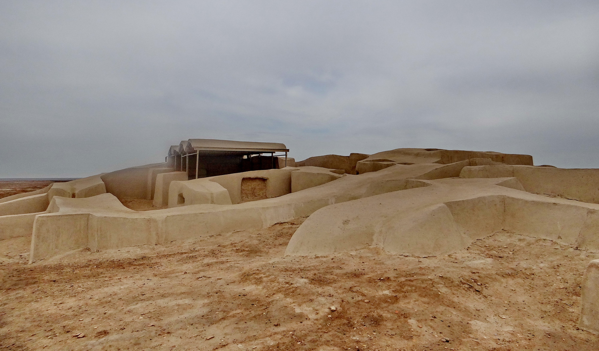 Burnt City area